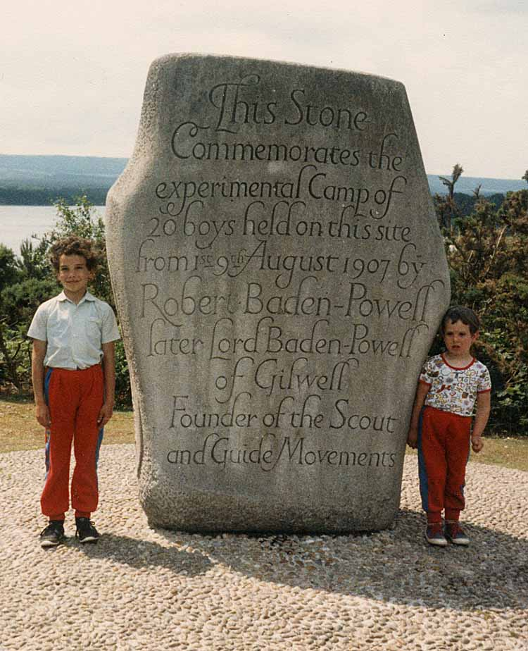 The stone on Brownsea Island, Poole Harbour, England, commemorating the first scout camp. The two children are not scouts, they're Arpingstone's sons. Photographed by Adrian Pingstone in 1988 and released to the public domain. This work has been released into the public domain by its author, Arpingstone. This applies worldwide. In some countries this may not be legally possible; if so: Arpingstone grants anyone the right to use this work for any purpose, without any conditions, unless such conditions are required by law. Scouting Category:Scouting images